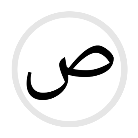 HS Letter (arabic alphabet)